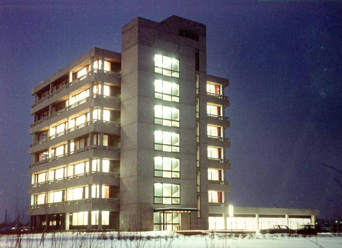 The Zentralstelle für maschinelle Dokumentation in Frankfurt-Niederrad - 1970Executive architects was the architectural firm Beckert and Becker, Frankfurt am Main. On the right in the low building the IT data center was housed.